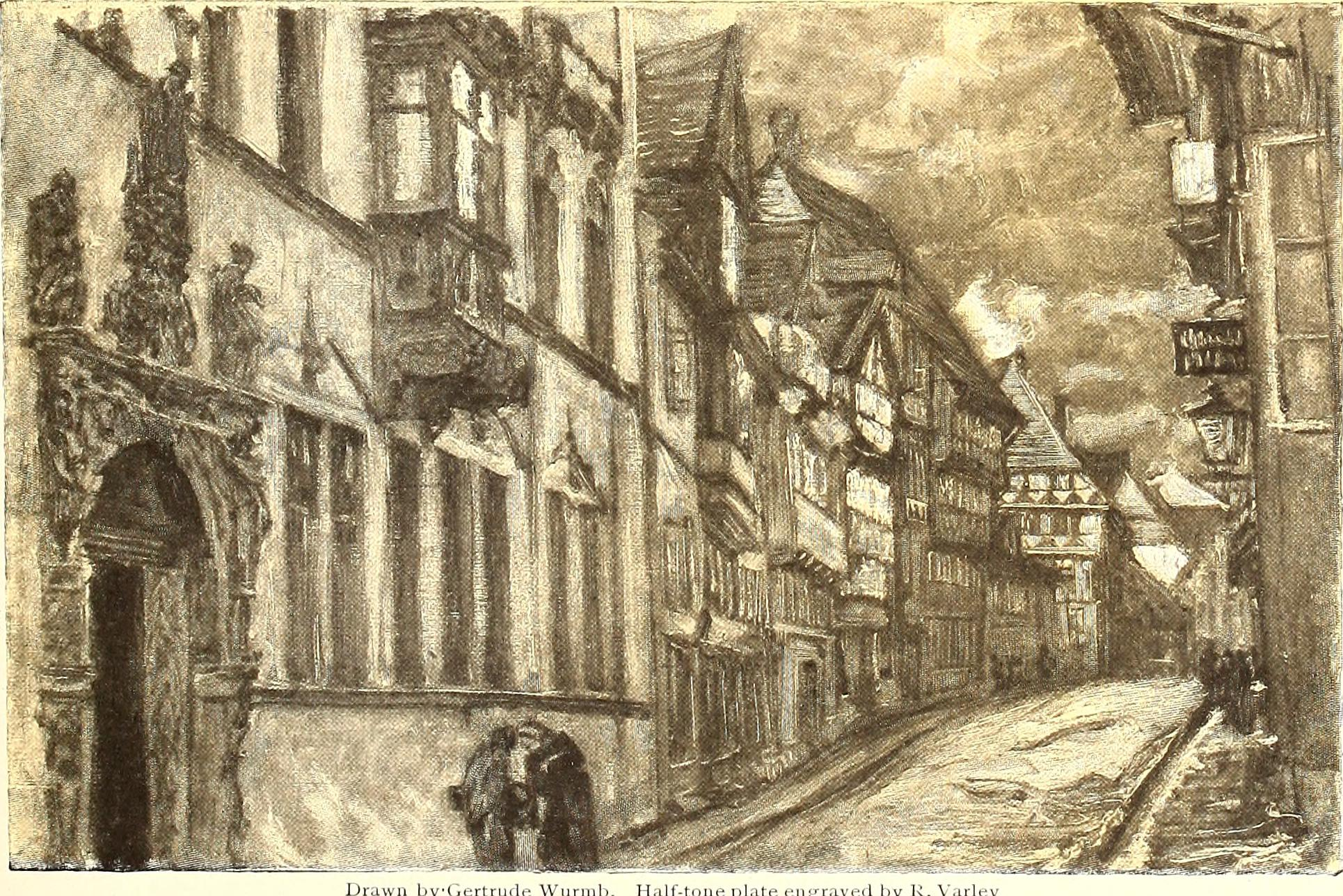 Title: Lincoln centennial number Year: 1909 (1900s) Authors: Subjects: Lincoln, Abraham, 1809-1865 Lincoln, Abraham, 1809-1865 Trumbull, Lyman, 1813-1896 Presidents Publisher: New York Text Appearing Before Image: overpower its private neighbors; while theGewandhaus wTas influenced even furtherby them, for it shows traces of the com-pactness and conservatism of timber con-struction. Each of these is a type of the municipalarchitecture of its period. The richnessand interest of the Rathaus come whollyfrom a two-storied Gothic colonnade,filled with tracery and gargoyles andSaxon princes under delicate baldachins.It is a happy instance of that self-re-straint, unusual in Germany, which hasmade poems of Brunswicks windingstreets. There the builders would allowno house to lord it over the others, andhere in the Rathaus the entire effectcomes from a tenfold repetition of onetheme. The Gewandhaus, as it looks down thesweep of the Post-Strasse, seems to fusein itself all the elements of the GermanRenaissance—the Italians fondness for aclassical play of proportion, his conserva-tive adherence to certain medieval effects,and the reckless passion of the Low Coun-tries for picturesque, unstructural orna- Text Appearing After Image: jyOertriide \V urlnb. Half-tune plate engraved by R, \ a OLD HOUSES IN THE REICHENSTRASSE